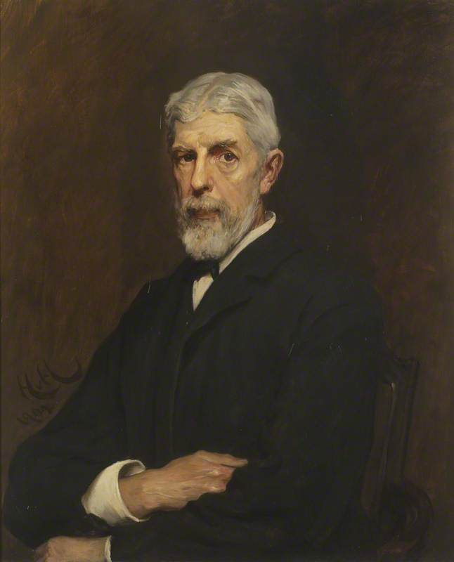 Oil painting of Sir Henry Trueman Wood, Secretary and Vice-President of the Society of Arts. by Hubert von Herkomer, 1902